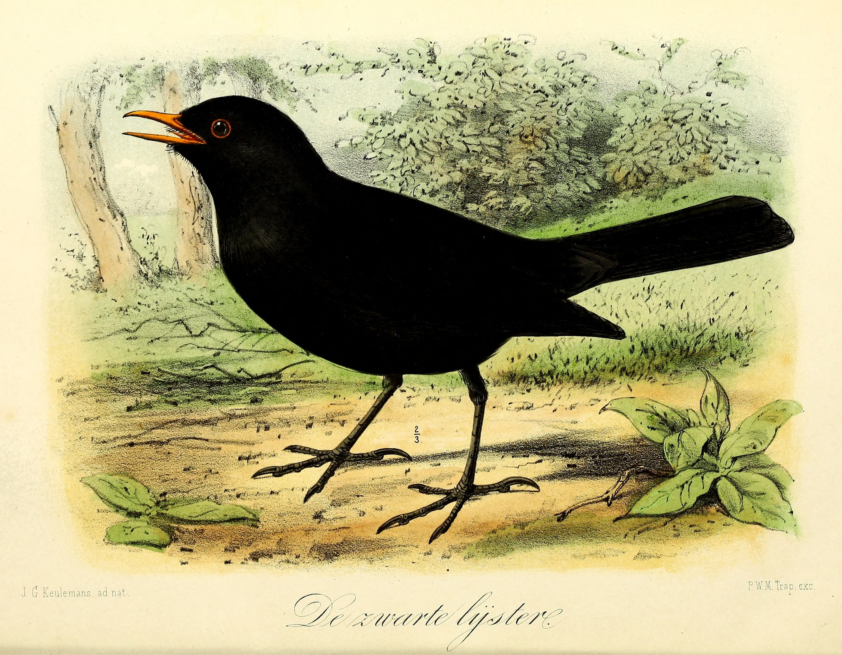 « Turdus merula » = Turdus merula (Common blackbird)